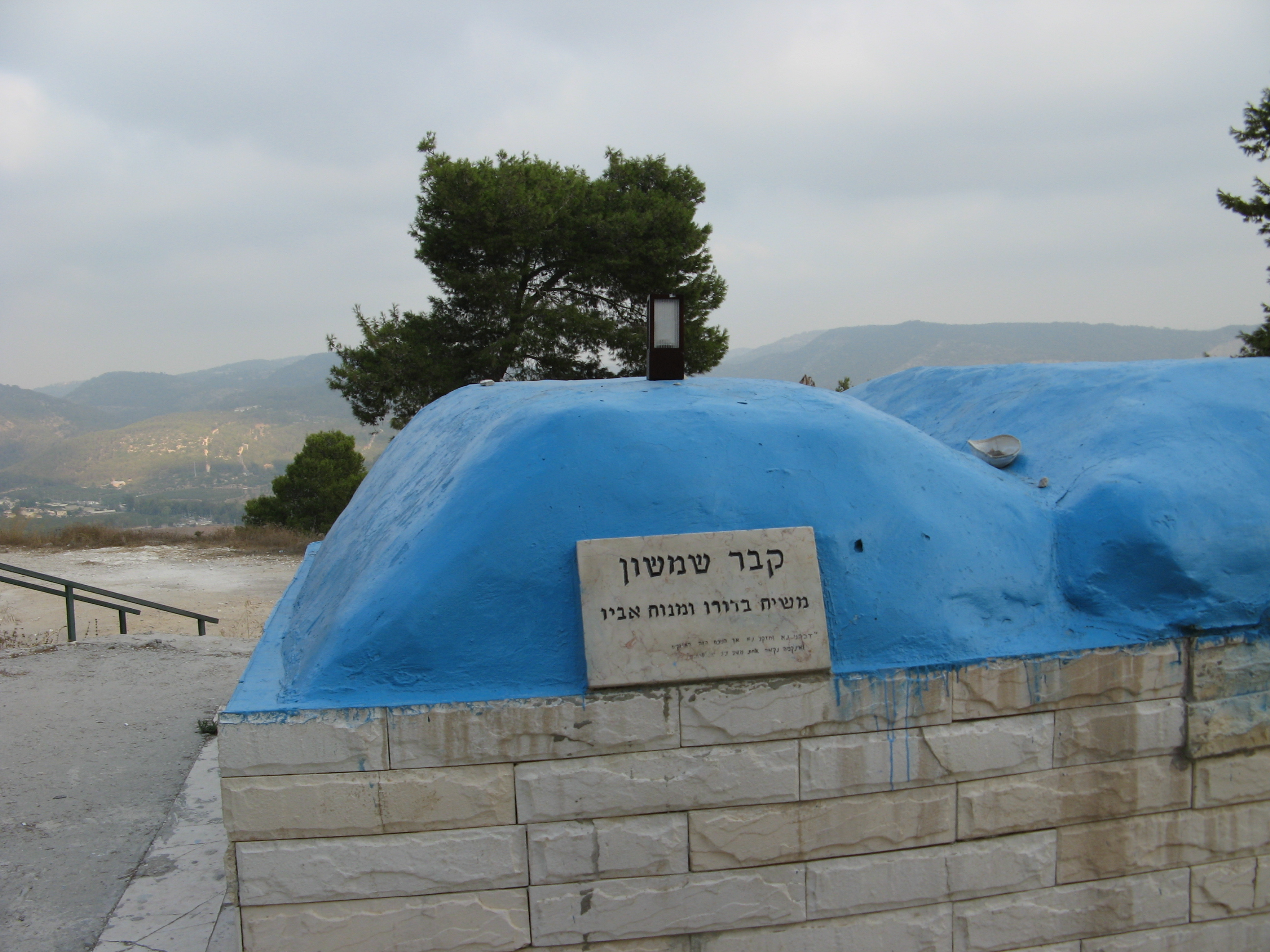 Samson Grave on mount Tzoraa